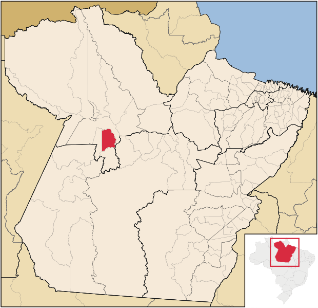 Map locator of Pará's Mojuí dos Campos city.